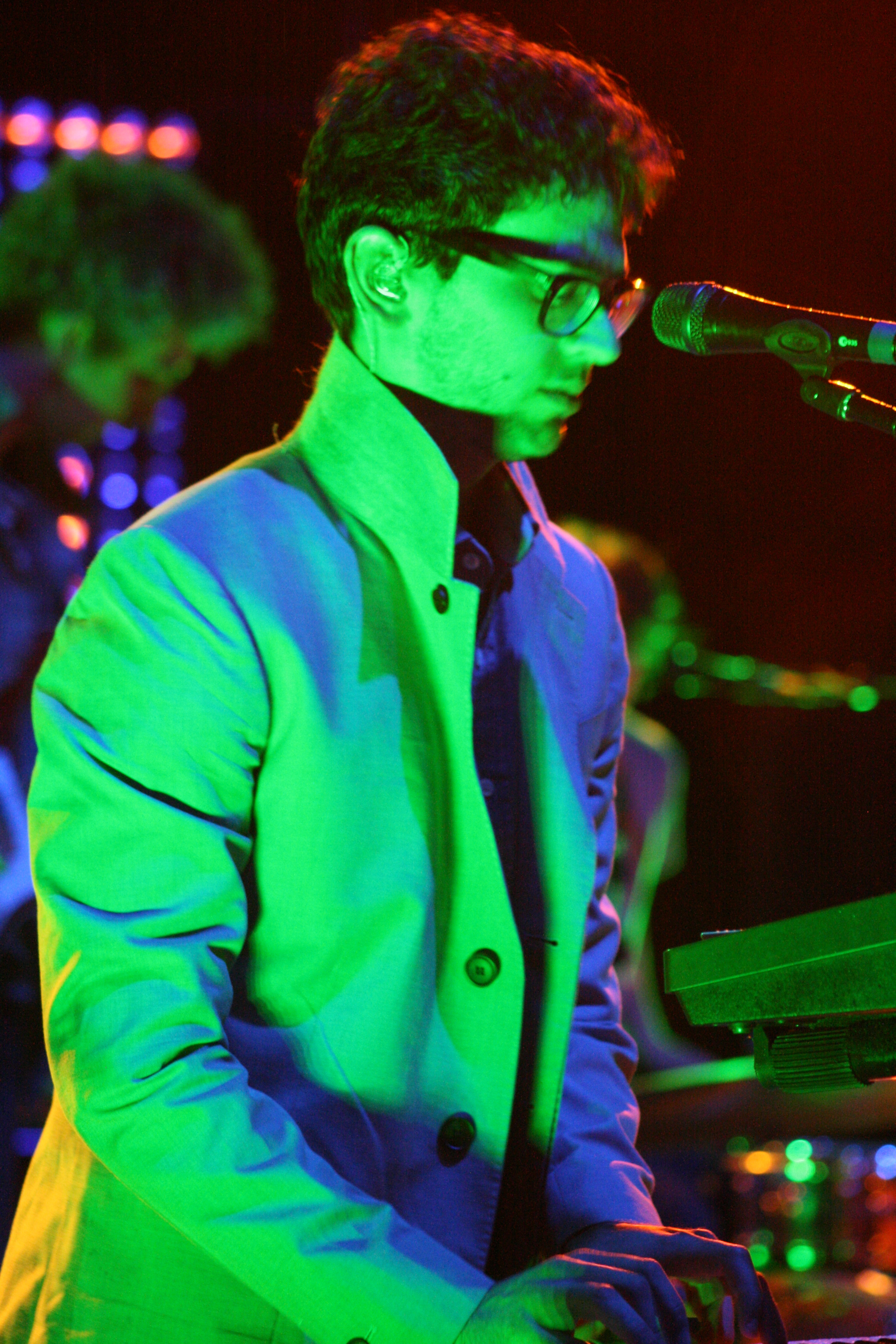 Goldwasser performing at Red Rocks in 2010.